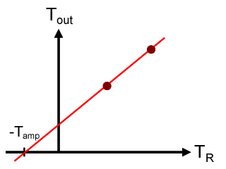 Sketch of a typical plot used in the Y-factor method for determining the gain and noise temperature of an amplifier. By D.F. Santavicca.